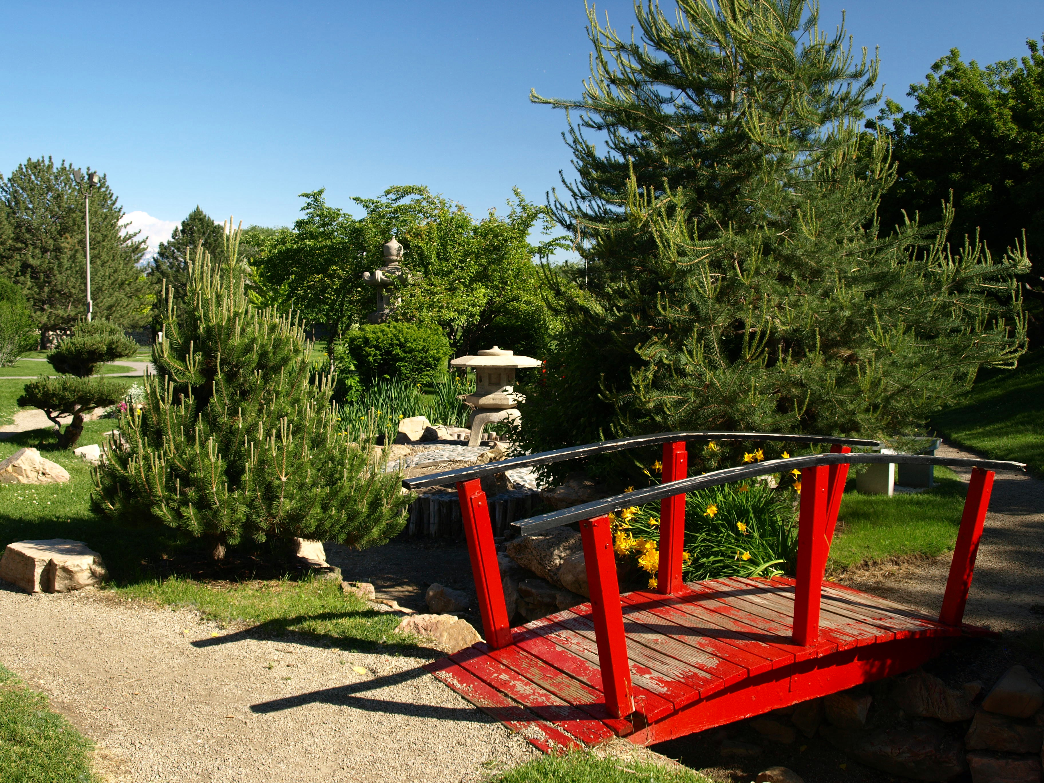 Japanese Garden-International Peace Gardens